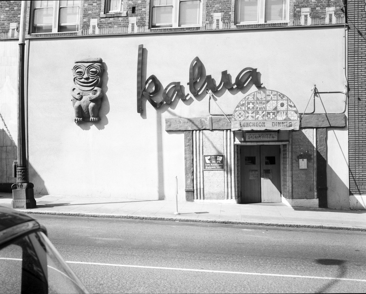 The Kalua restaurant and bar in the old Hotel Windsor at 6th and Union, Seattle, Washington, U.S., 1953.